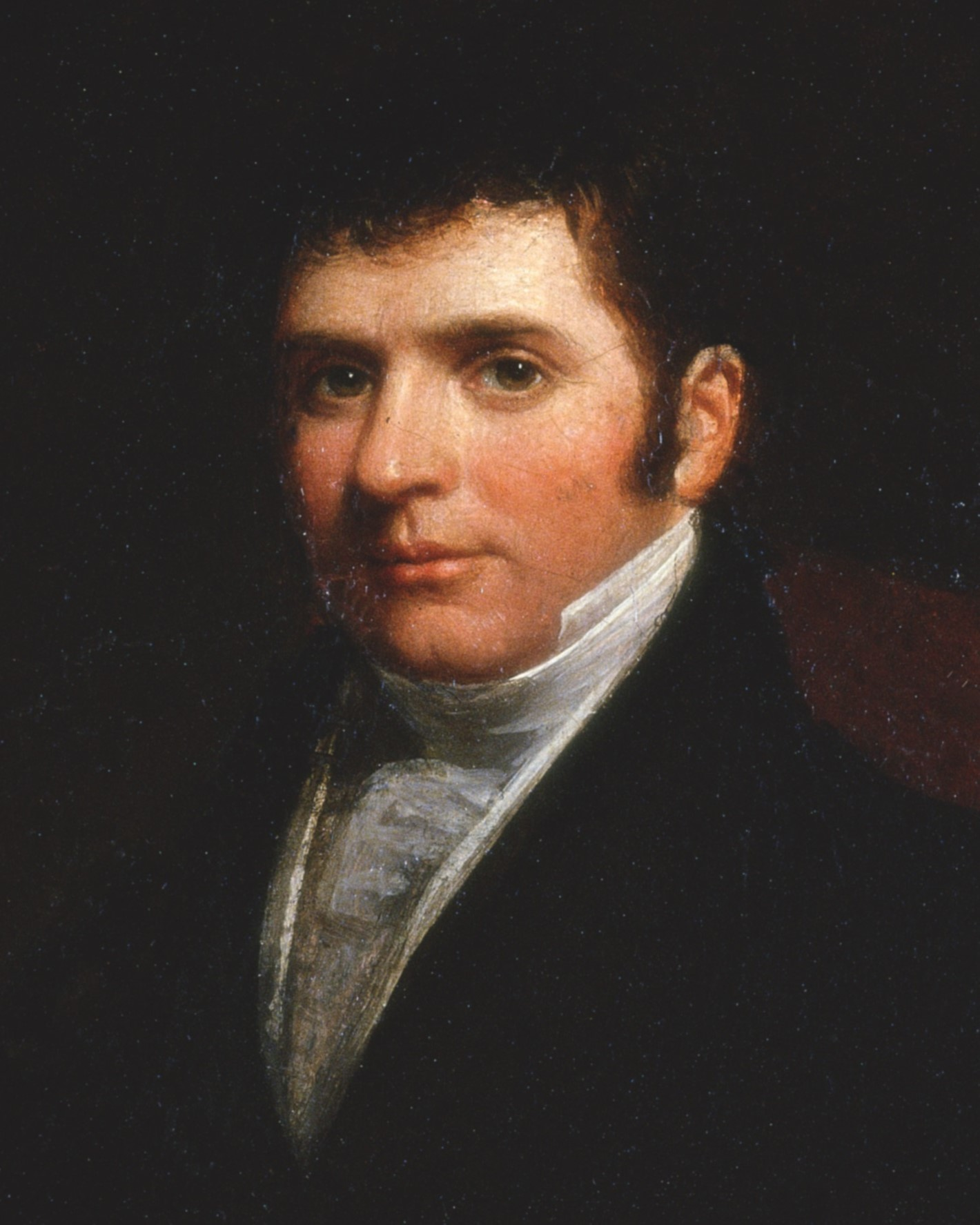 Portrait of Newcastle upon Tyne architect John Dobson (1787-1865).